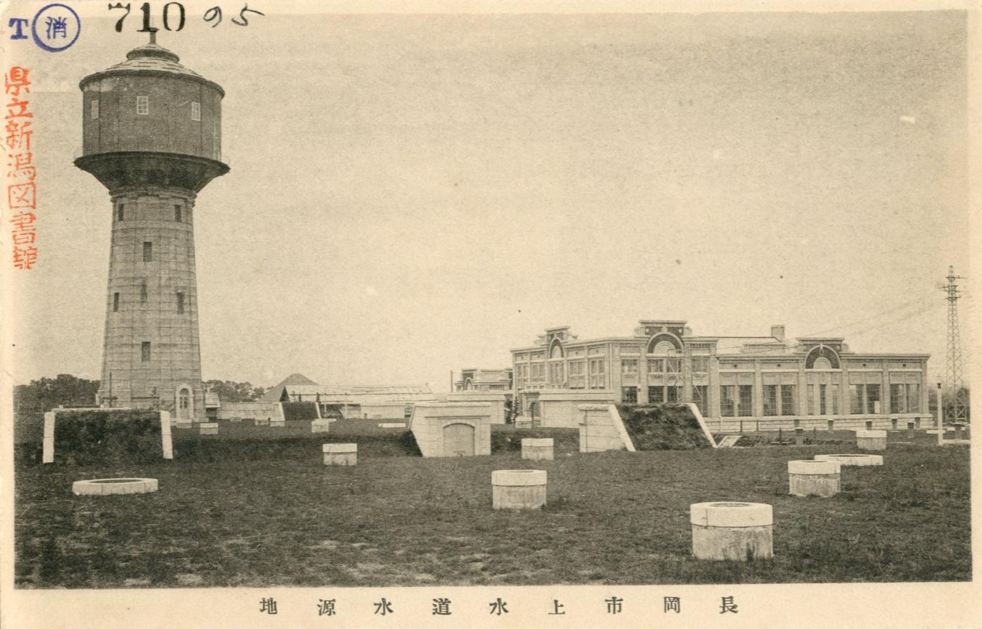 Postcard of Nagaoka City Water supply plant in early Shōwa era